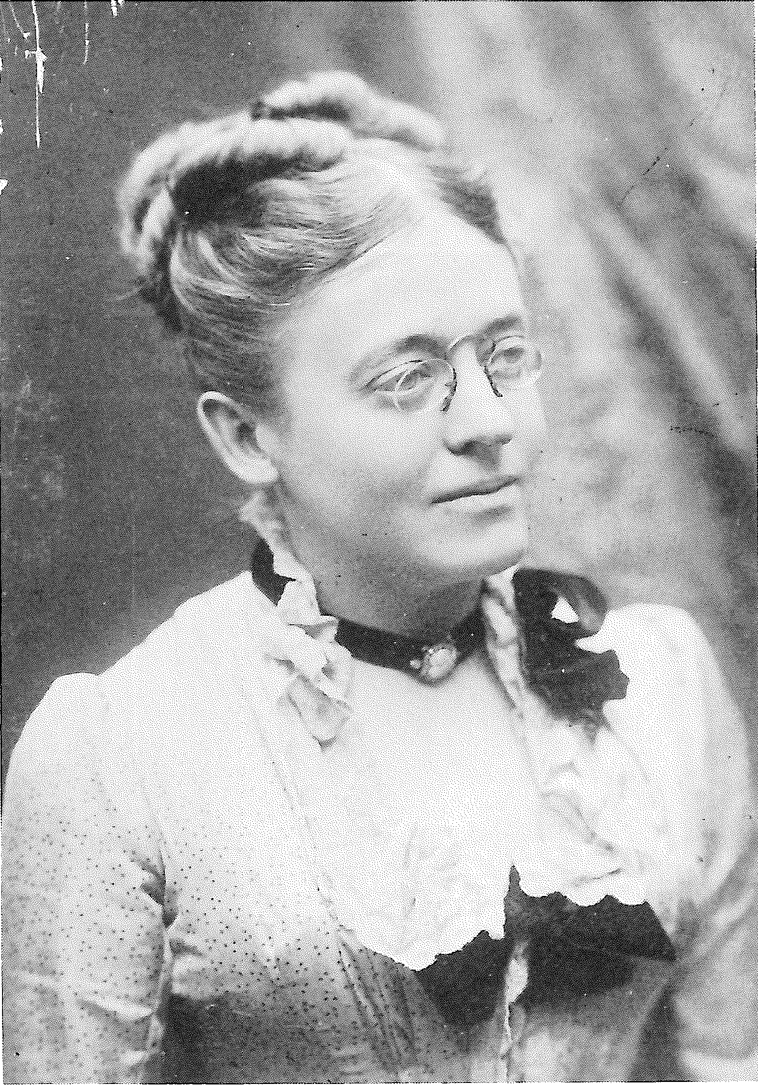 Anna Lea Merritt 1885, photograph in private collection